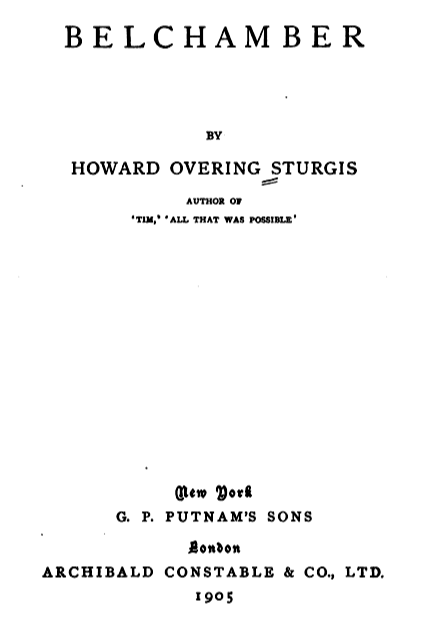 Title page of Belchamber by Howard Sturgis (1905).